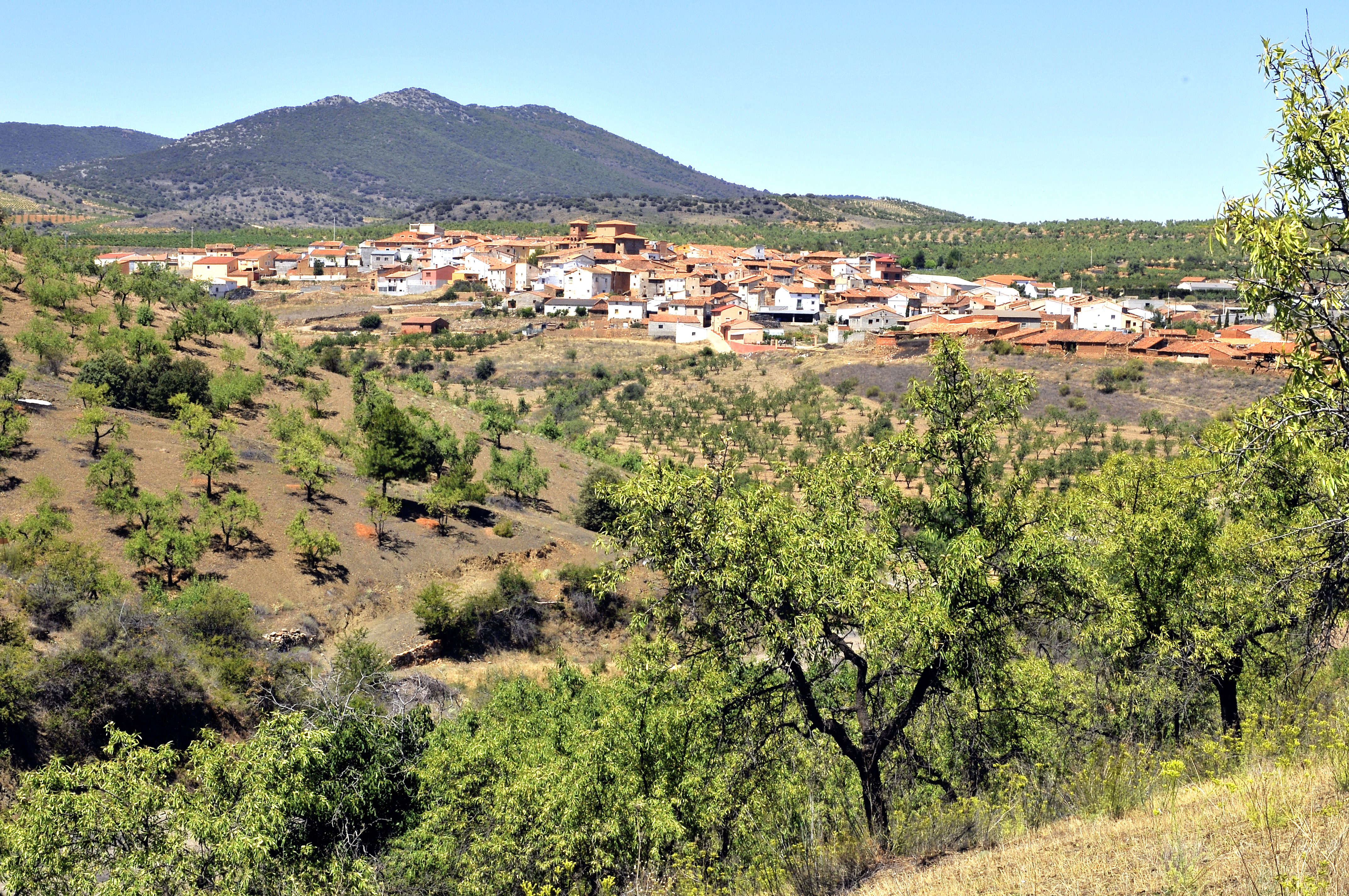 The village and its surroundings. Acered, Zaragoza, Aragon, Spain